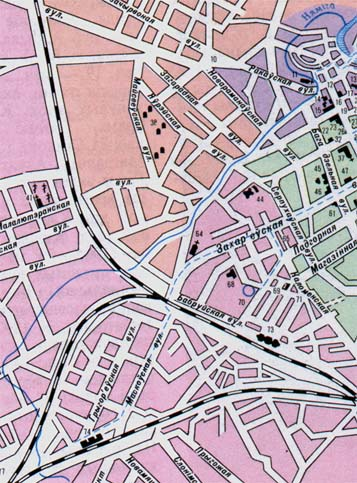 Nemiga river map